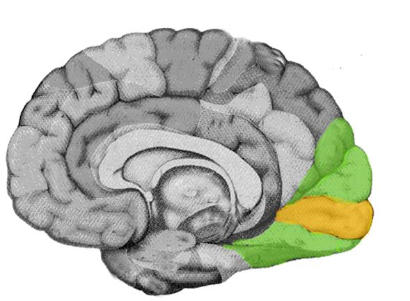 visual cortex